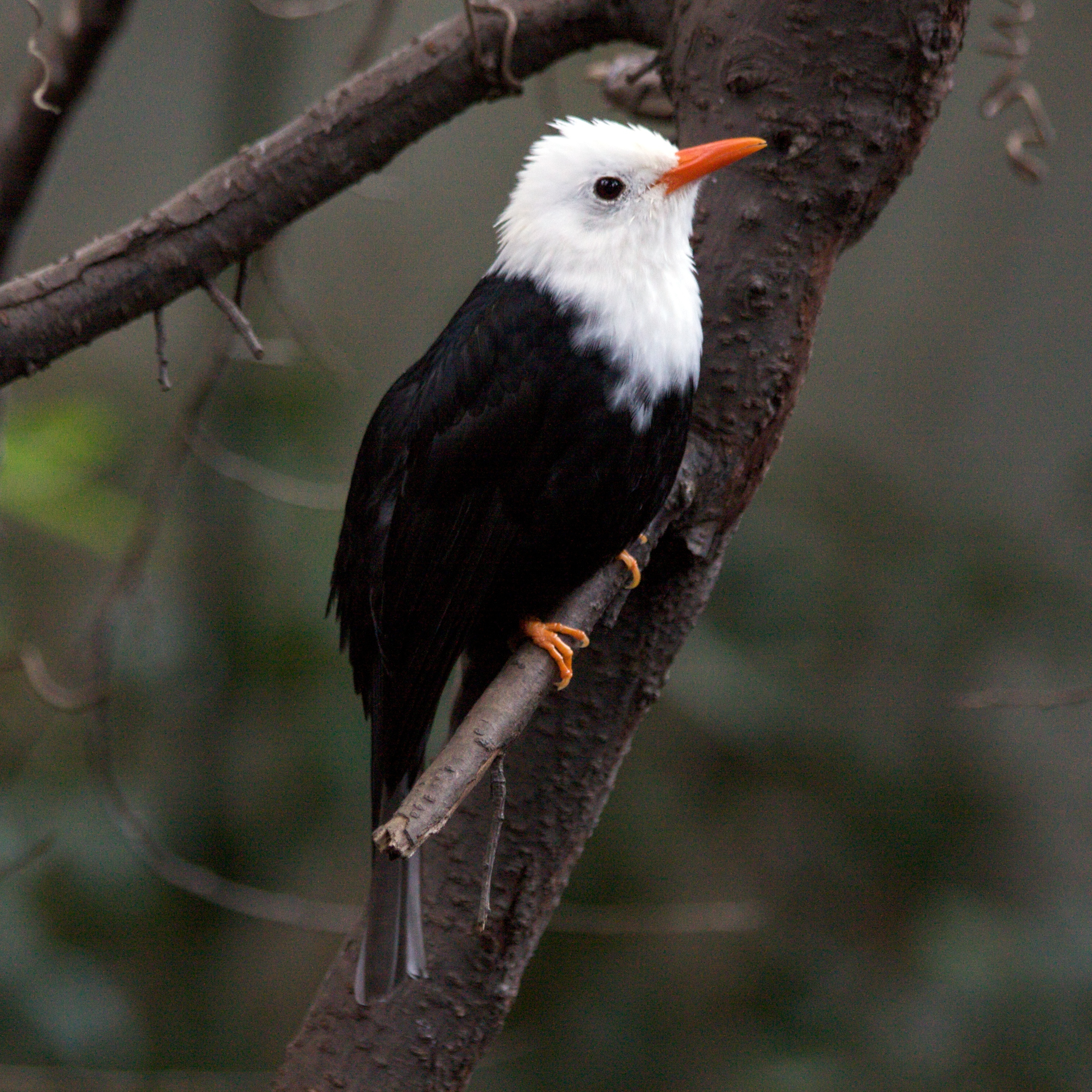 A Black Bulbul at Prague Zoo, Czechoslovakia. It is the white-headed morph of the nominate subspecies.